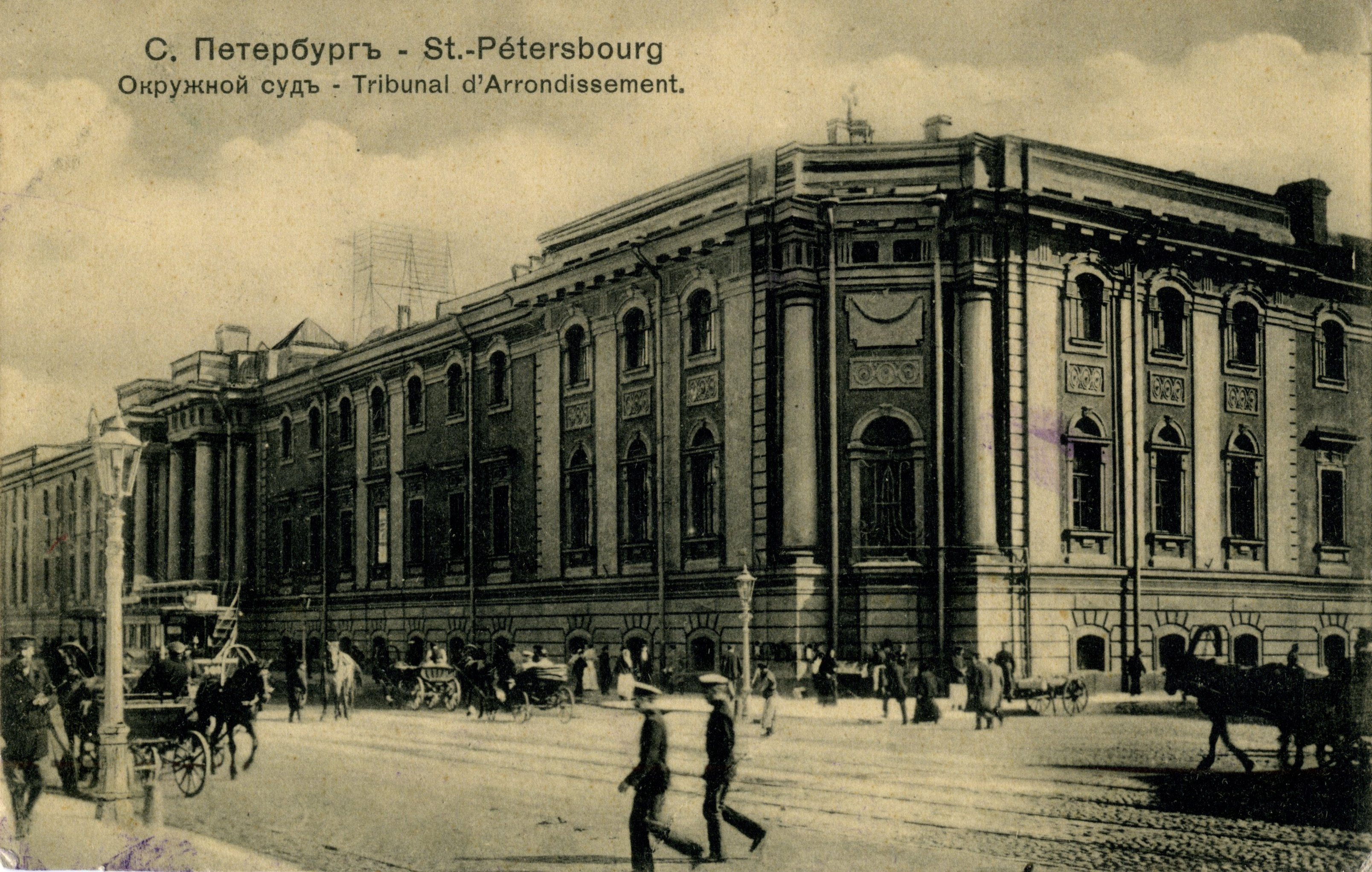 District's Court building